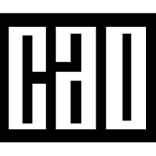 Logo of the Central Applications Office (CAO)